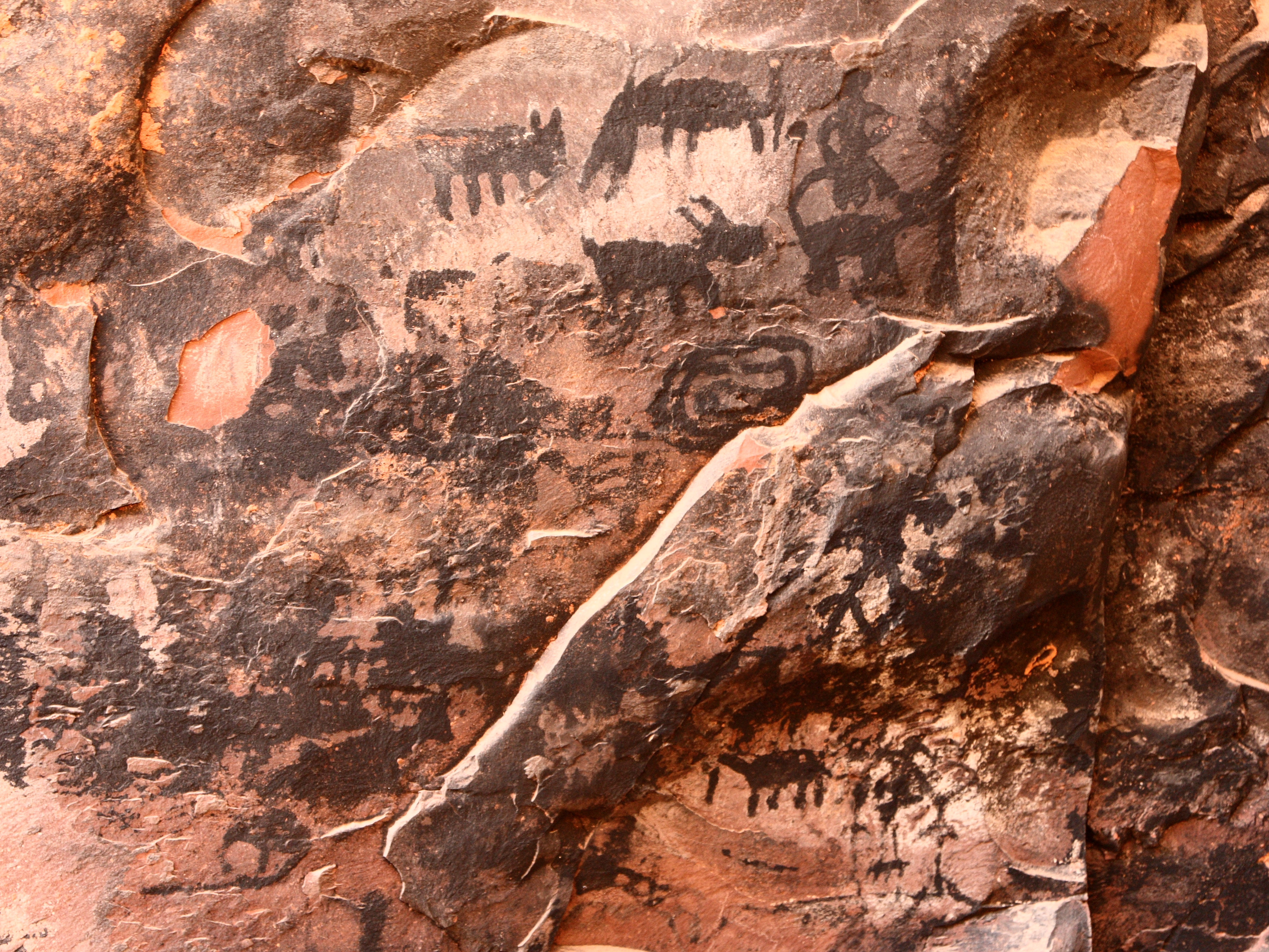 Cave pictographs at Palatki site, near Sedona, AZ, USA